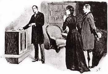 Sherlock Holmes in "The Adventure of the Speckled Band", which appeared in The Strand Magazine in February, 1892. Original caption was "WELL, LOOK AT THIS."